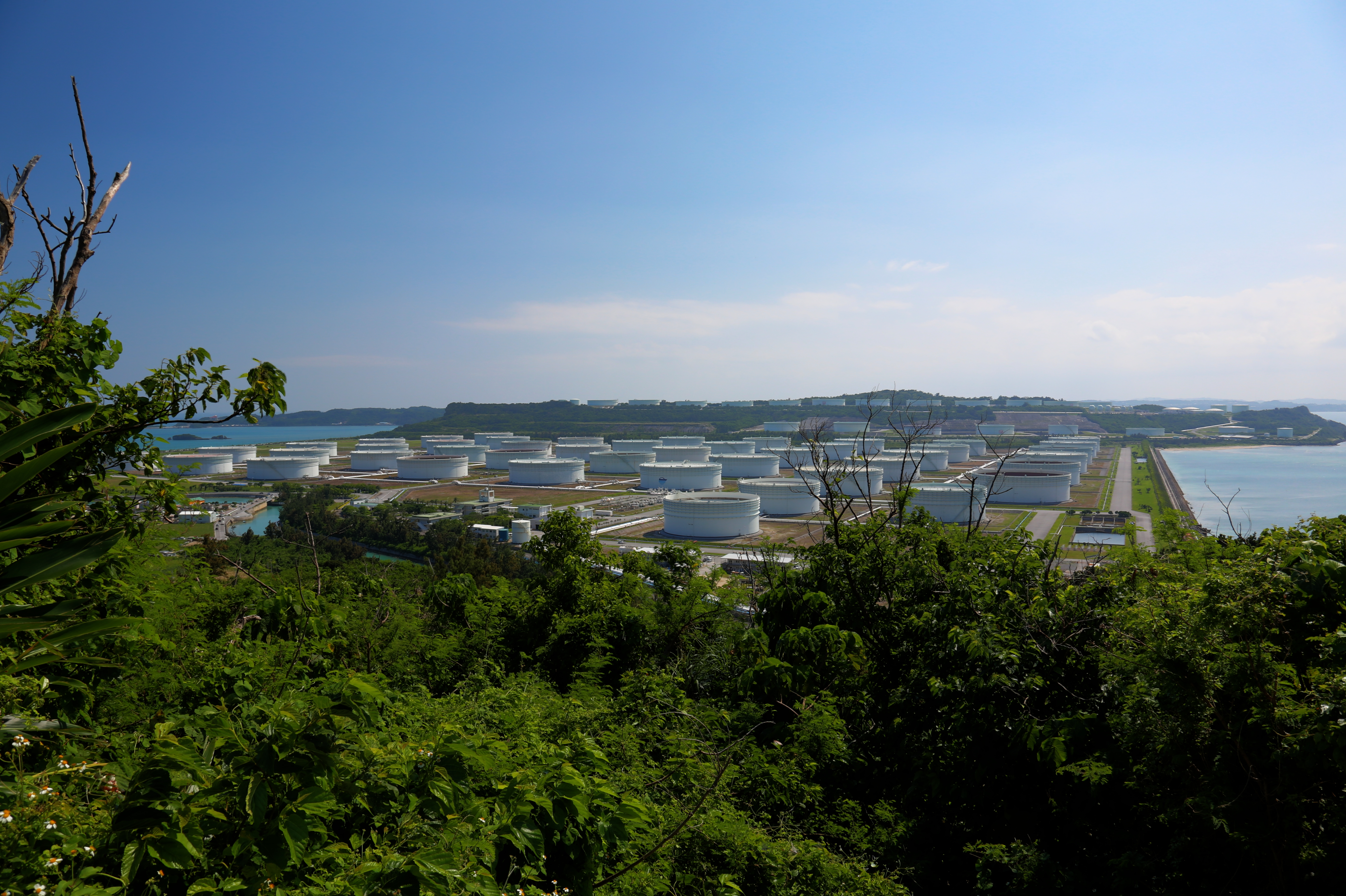 Oil terminal owned by the Okinawa CTS Corporation in Henza Island, seen from Miyagi Island, Yonashiro-uehara, Uruma, Okinawa Prefecture, Japan